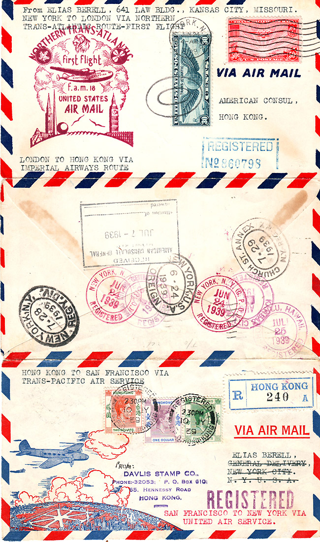 Three panel flown "triptych" cover carried around the world (New York-Shediac-Botwood-Foynes-Southampton-Cairo-Karachi-Singapore-Hong Kong-Manila-Guam-Wake I.-Midway I.-Honolulu-San Francisco-New York) via PAA (Boeing 314 Clipper) and Imperial Airways (Short S23) including FAM 18 (Northern Route) First Flight, June 24 - July 28, 1939